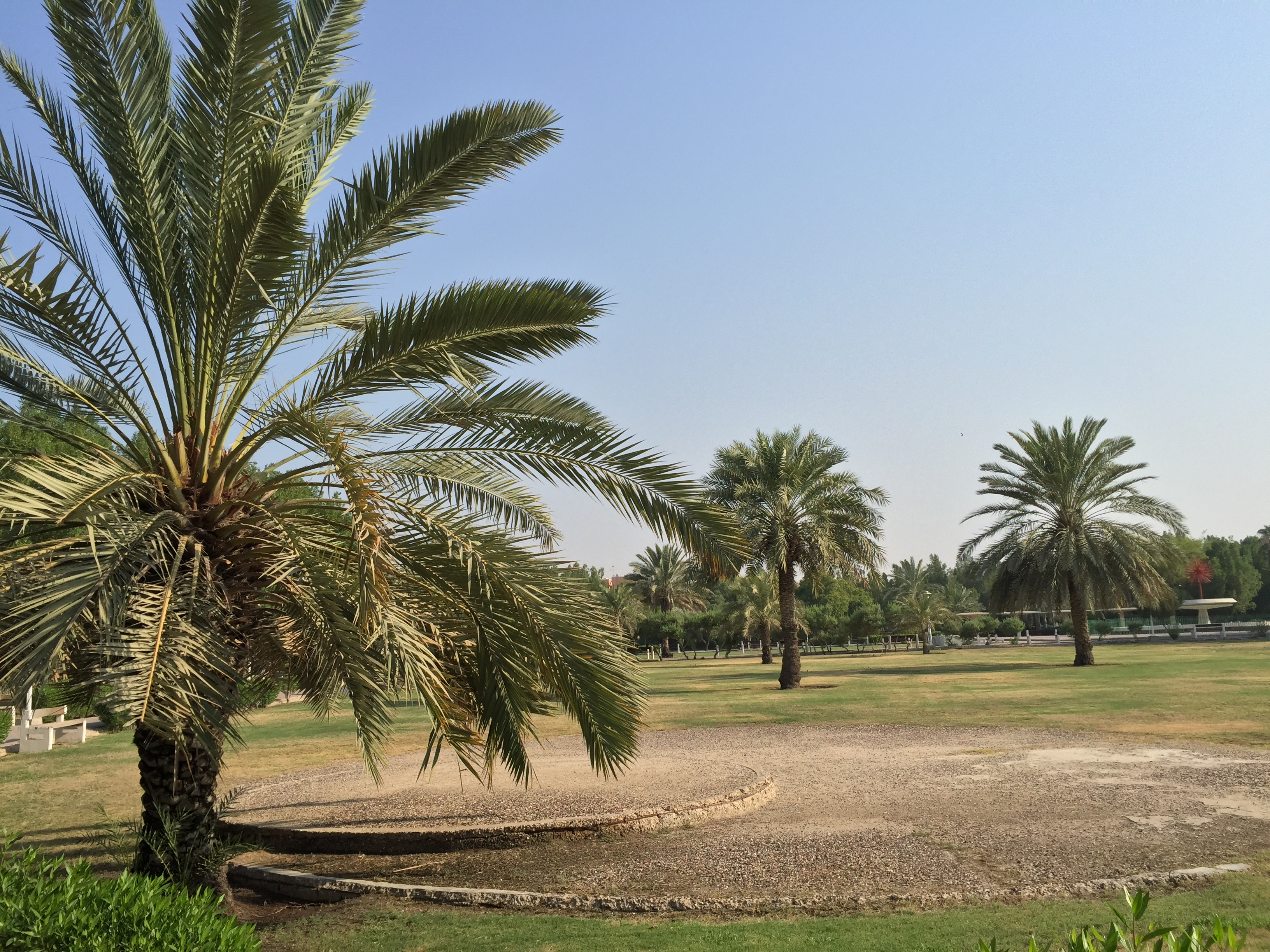 Rumaithiya Park Block 6